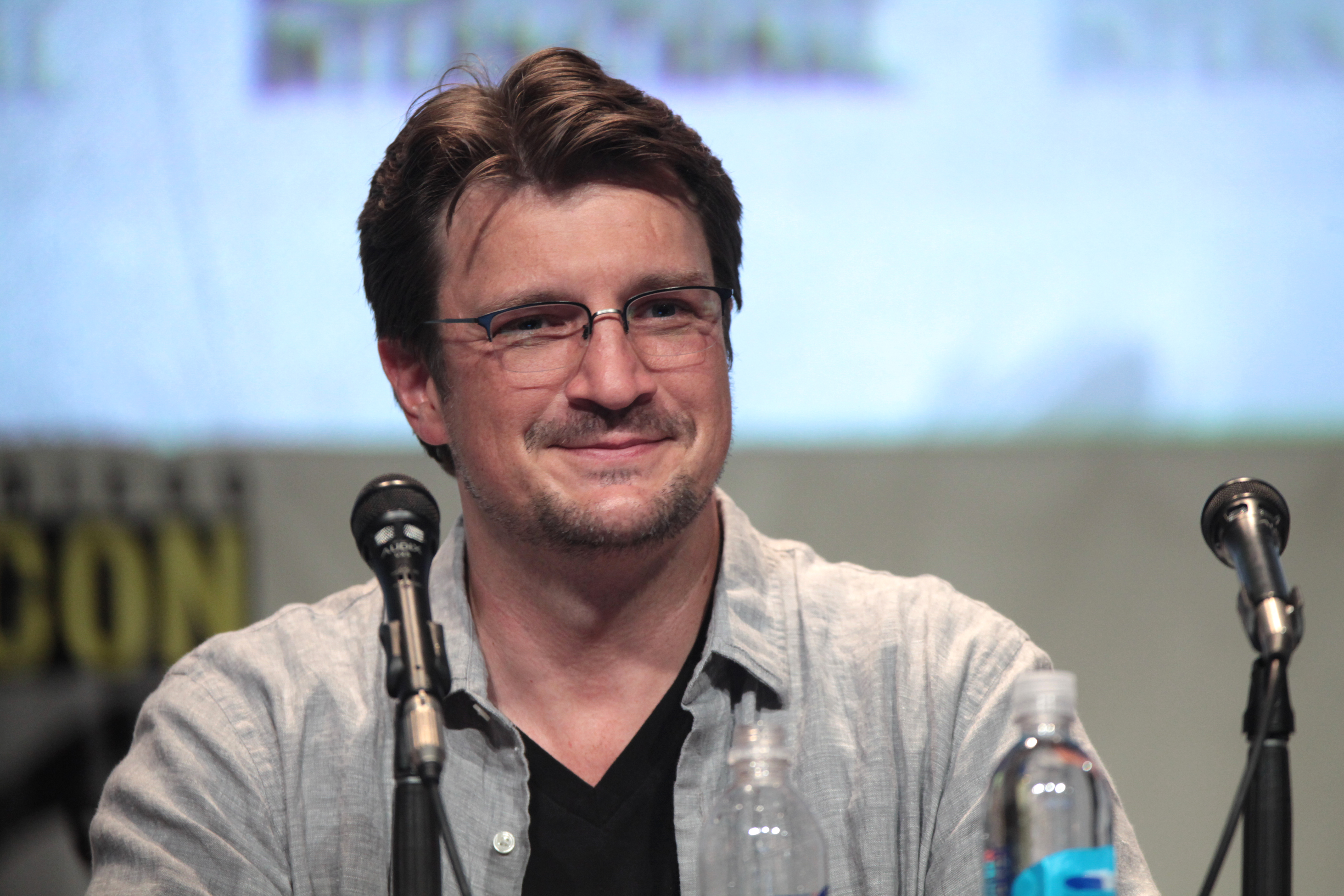 Nathan Fillion speaking at the 2015 San Diego Comic Con International, for "Con Man", at the San Diego Convention Center in San Diego, California.